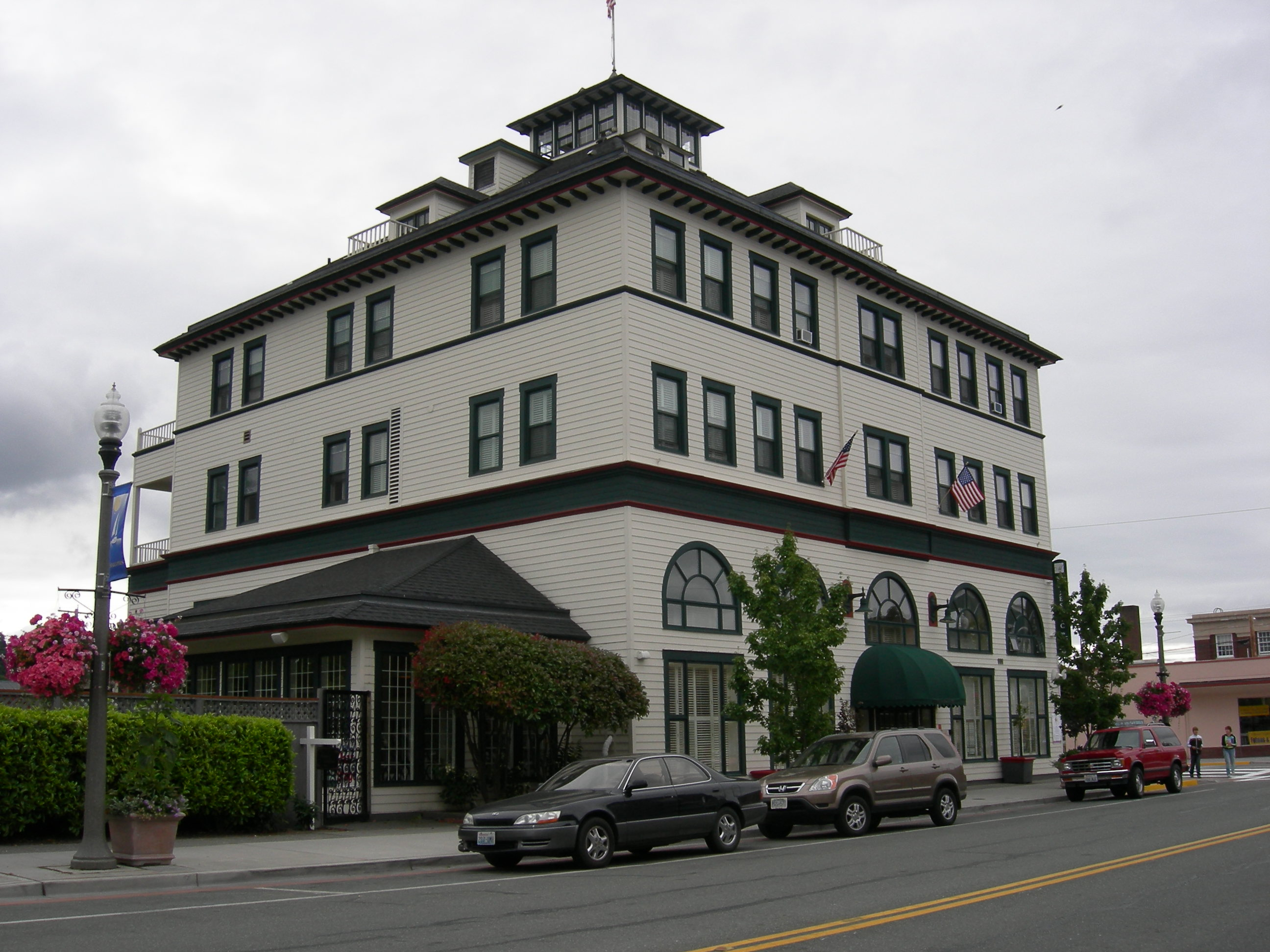 Majestic Inn, 5th and Commercial, Anacortes, Washington.